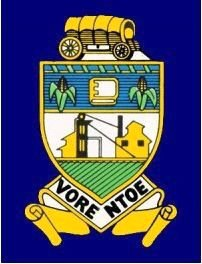 School badge